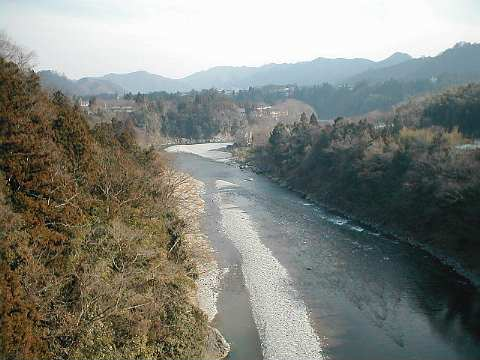 The Tama River near the City of Ome,west of Tokyo, Japan